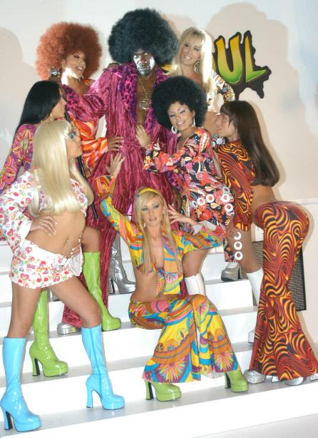 Kat, Melissa Martinez, Jasmine Byrne, Hillary Scott, John E. Depth, Victoria Sweet, Alana Evans and Naomi on set Britney Rears 3 From X-Play/Hustler Video